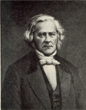 Contemporary portrait of the philologist Anders Uppström (1806-1868), owned by Gästrike-Hälsinge nation, student society at Uppsala University in Sweden.